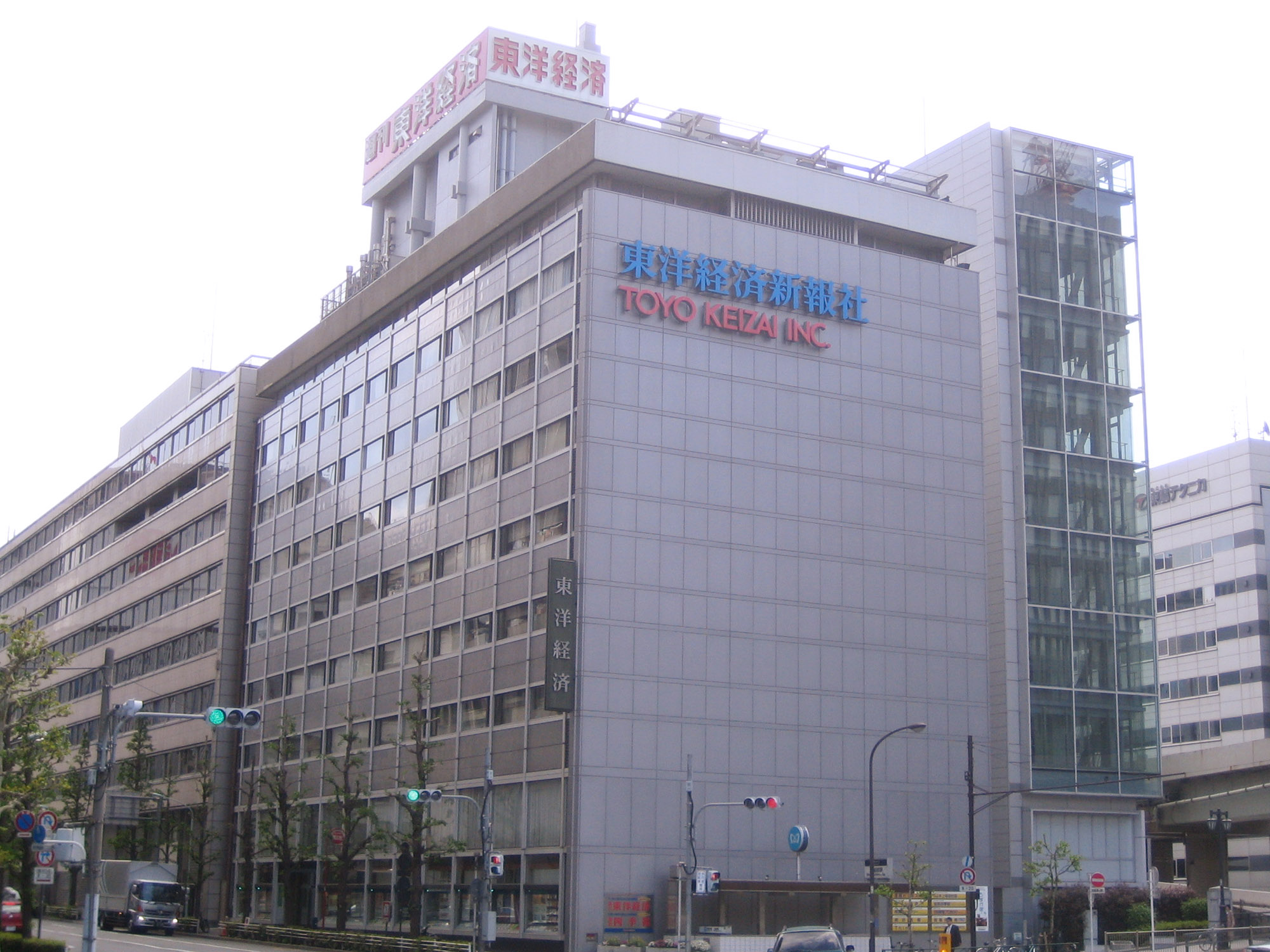 Toyo Keizai Inc. (東洋経済新報社 Tōyō Keizai Shinpōsha), at Nihonbashi-hongokucho, Chuo, Tokyo, Japan